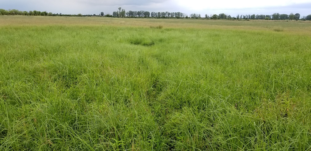 Karst_spring_Viretsa